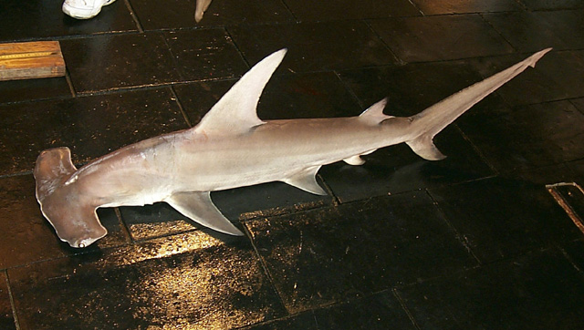 Great hammerhead (Sphyrna mokarran)